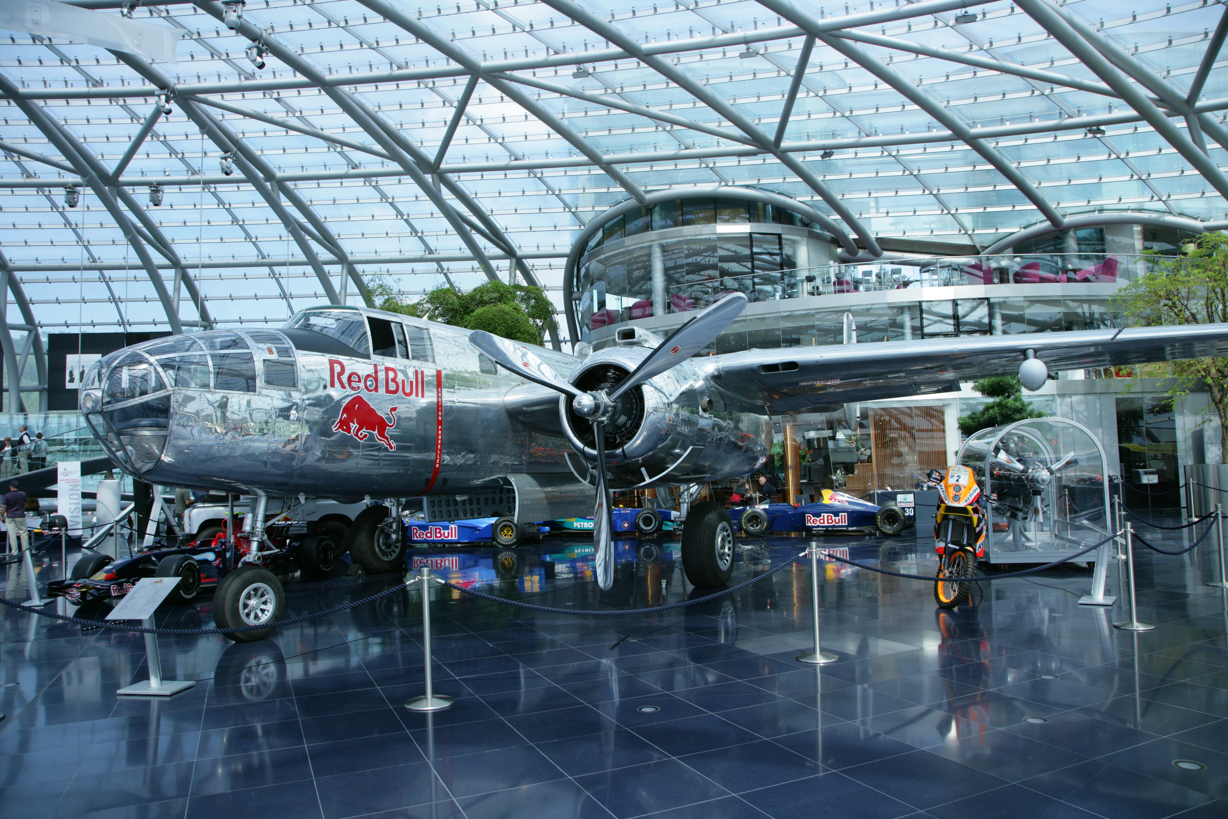 Exhibition area of the Red Bull Hangar-7; North American B-25J "Mitchell"